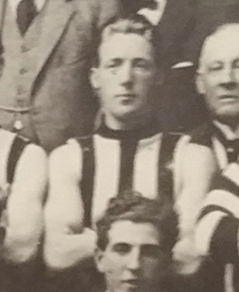 Photograph of Jim Keogh in 1921